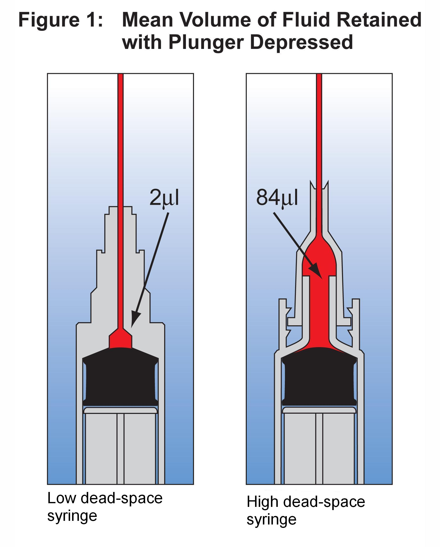 Fluid remaining after plunger is fully depressed